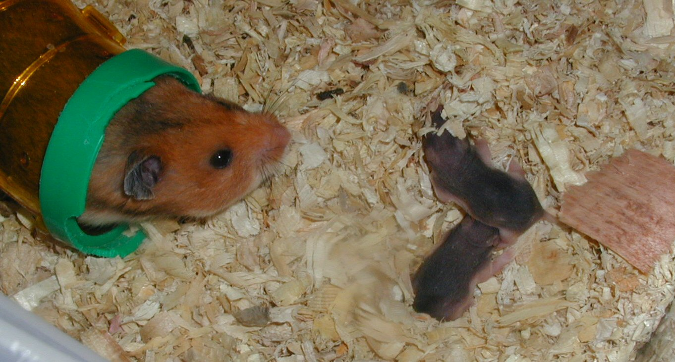 This is a photo I took myself. It is a female syrian with her two babies, which are less than one week old.